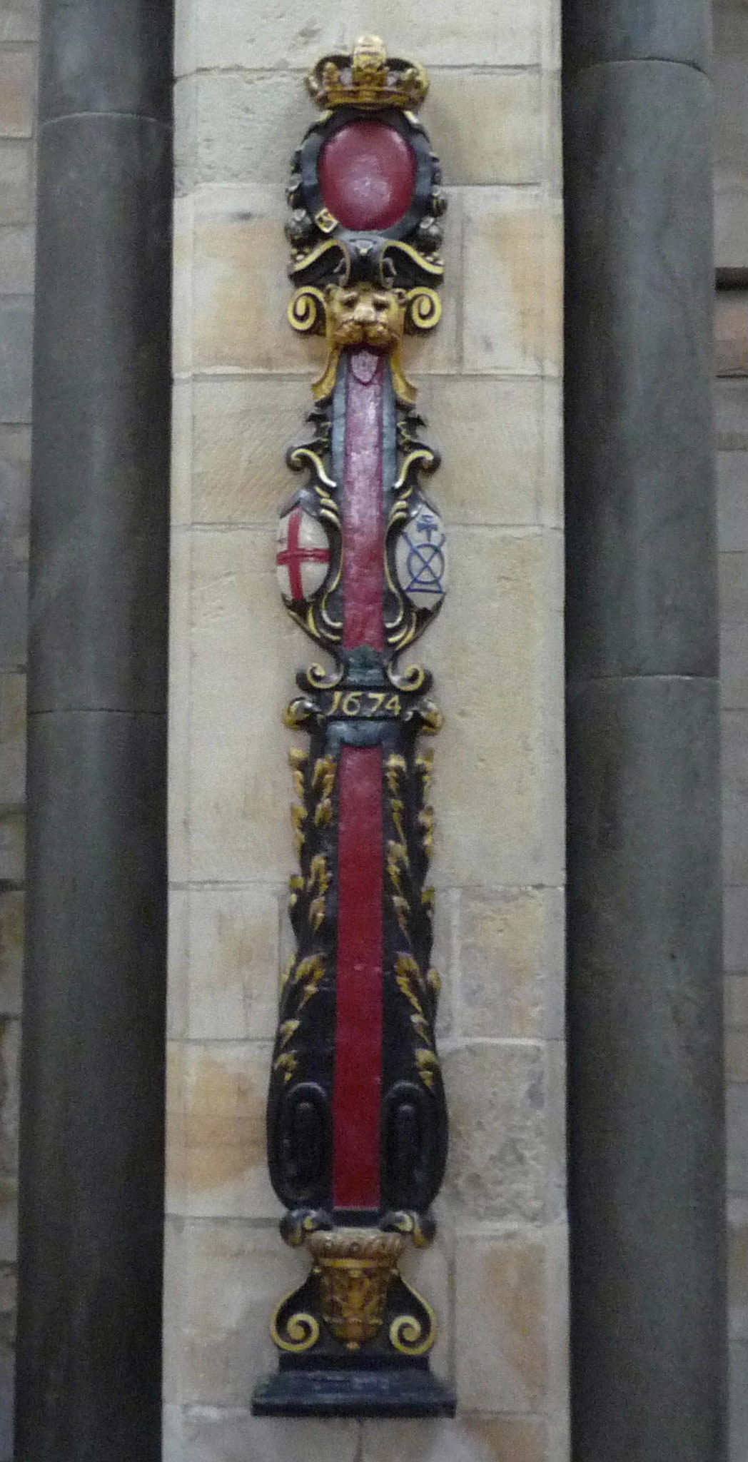 This sword rest is displayed at grid reference TQ326803 on the north wall of the North Transept of Southwark Cathedral. It formerly belonged to the church of St Olave, Southwark. It is dated 1674 and is made of wood. The sword rests in other churches in the City of London are almost always of iron. The Bridge House, which was the administrative and maintenance centre of Old London Bridge, was located on the south bank of the River Thames, near the site of St Olave's. So, appropriately, on this sword rest we see the red cross with red sword in dexter chief of the City of London on the left and the blue Bridge Mark, the logo of Bridge House Estates on the right. More on the Bridge Mark and sword rests.